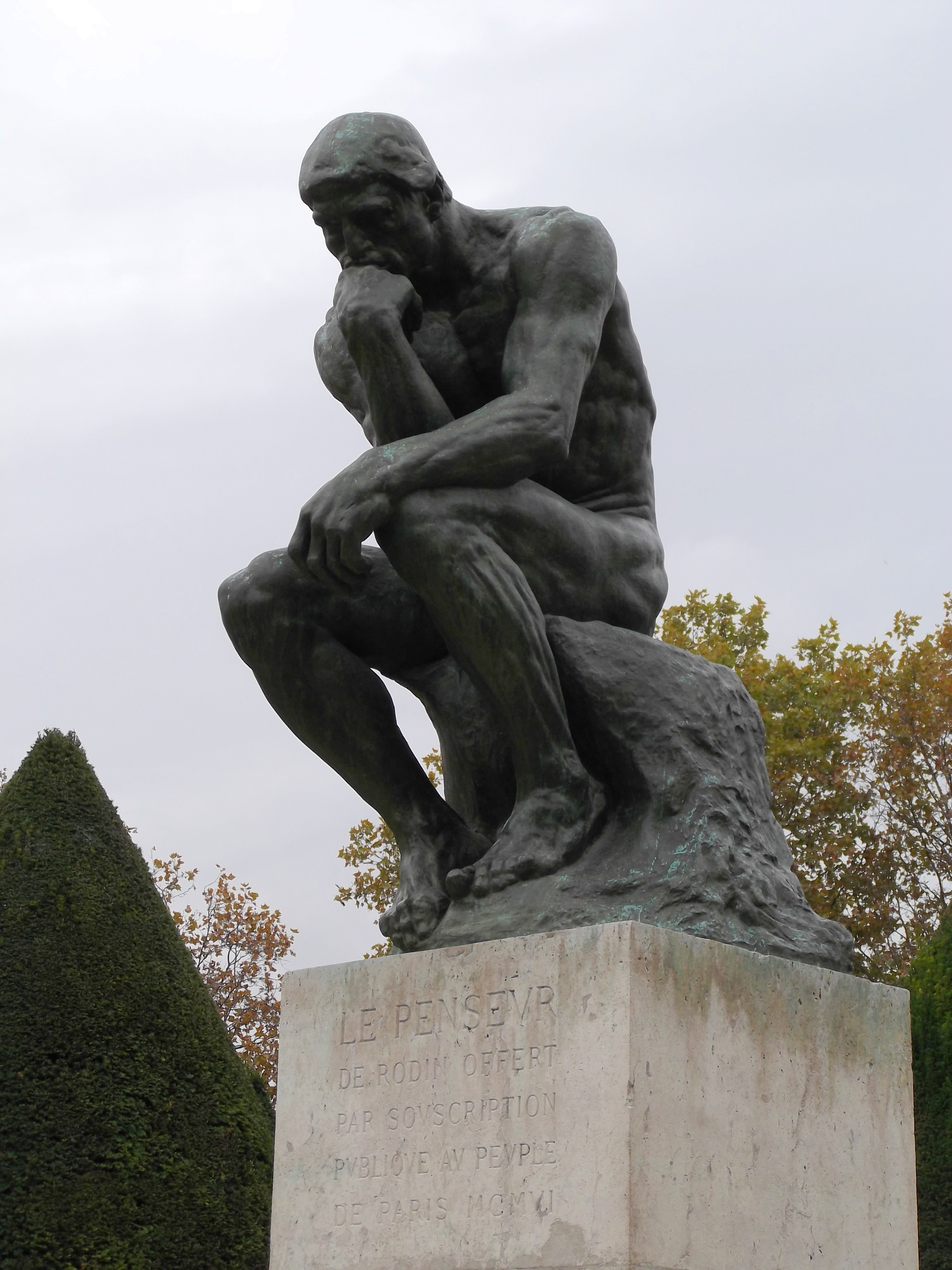 Sculpture in the Musée Rodin, Paris, France.